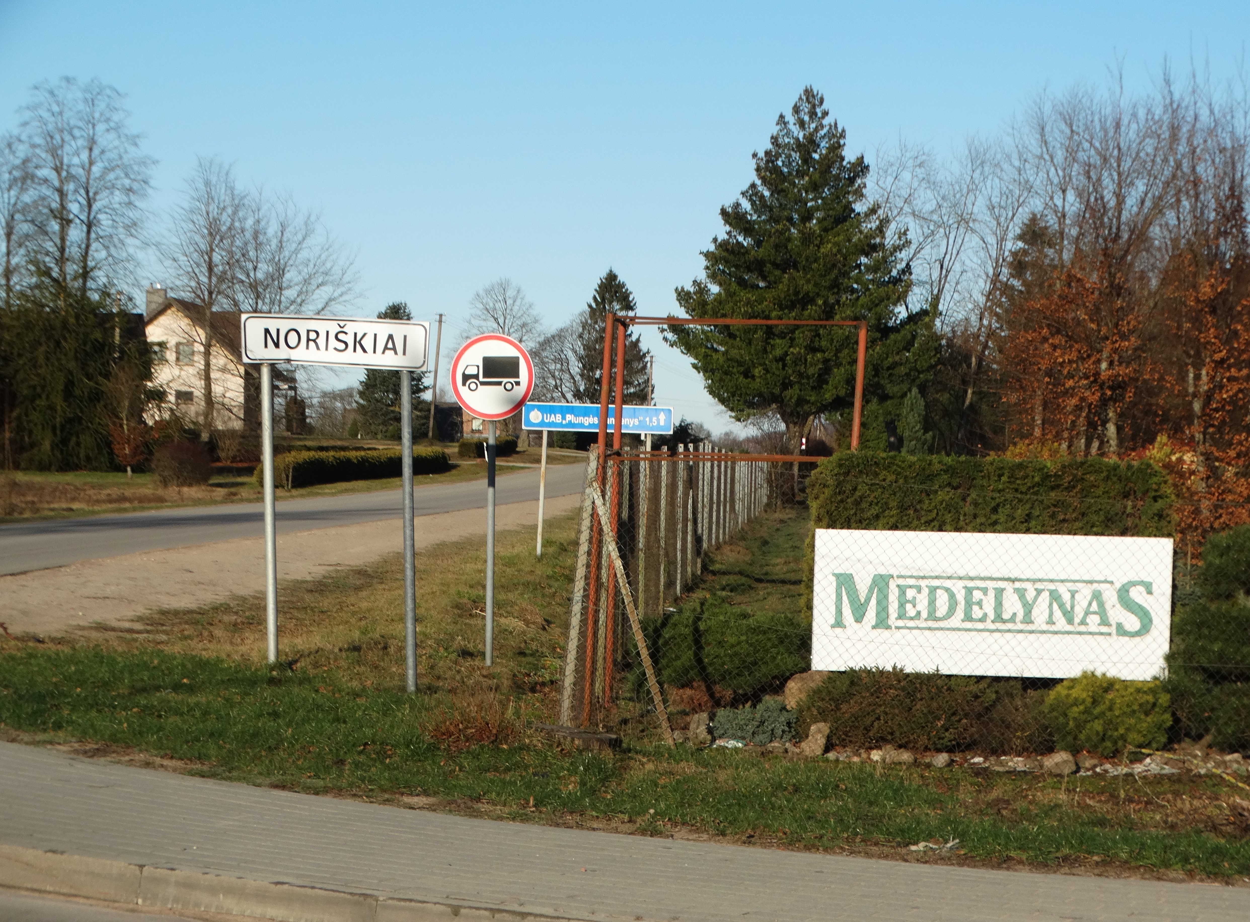 Noriškiai, Plungė district, Lithuania